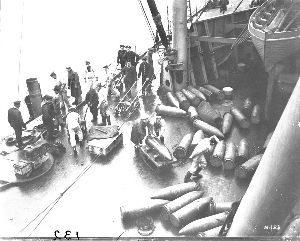 Photograph shows taking aboard 13.5 inch shells from a tender alongside the British battlecruiser H.M.S. Lion.